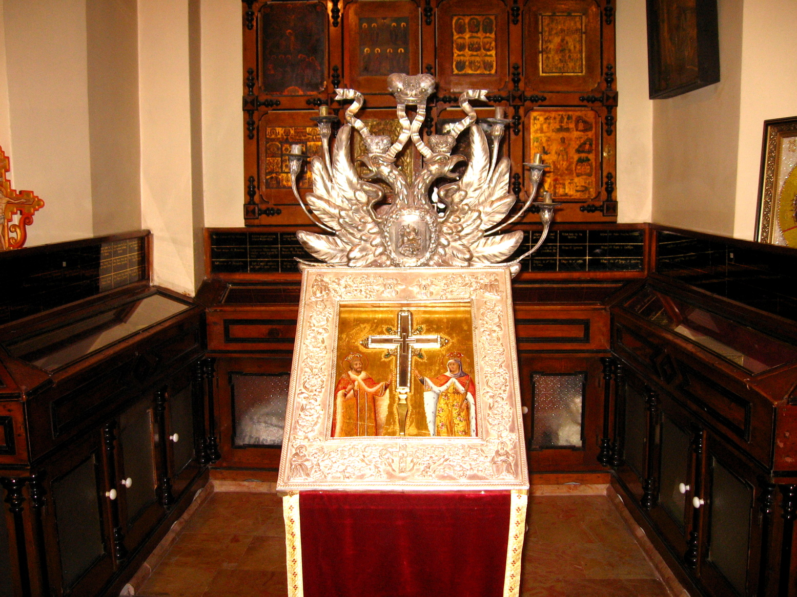 Treasure Room, Church of the Holy Sepulchre, Jerusalem. In center: the True Cross. Near the walls: holy relics.